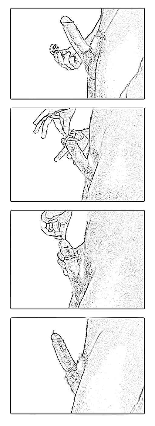 How to put on a condom. Selfpics made by Warbler. Modified from Image:CondomUse.jpg.